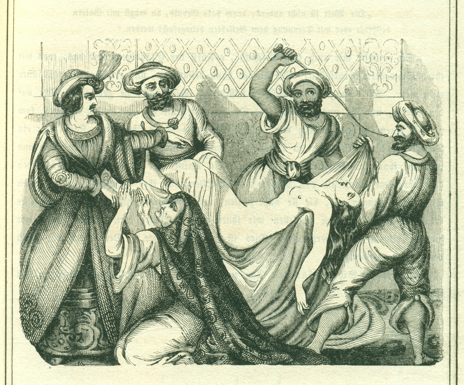 Woodcut